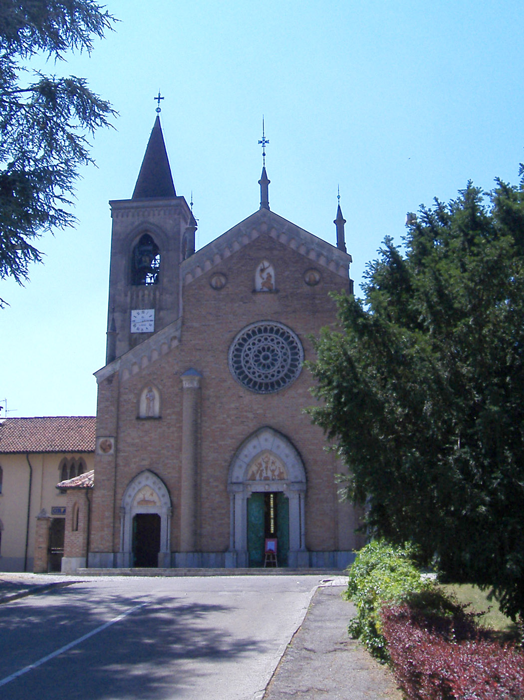 The church of Montanaso Lombardo, (LO), Italy